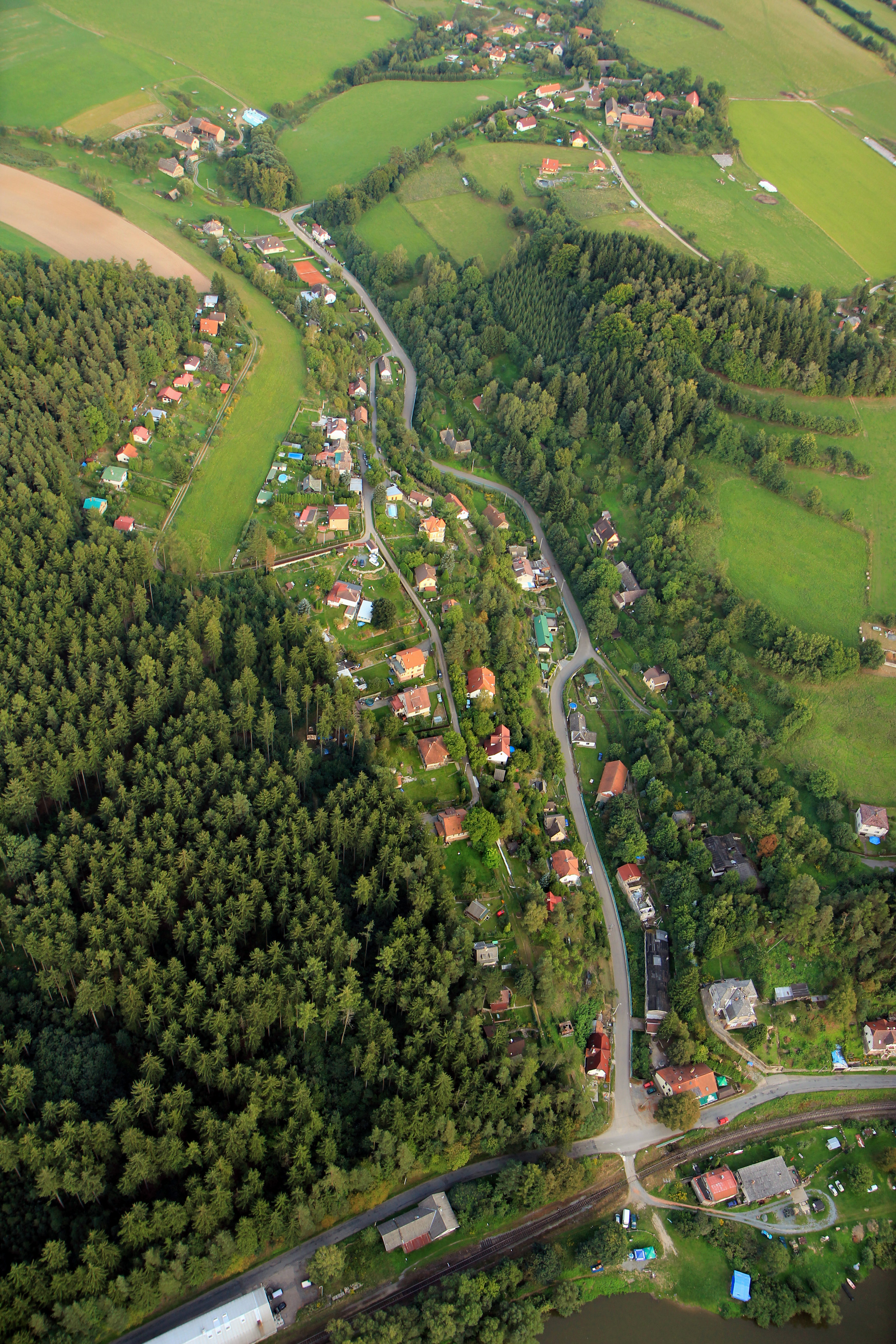 Aerial view of Vlkovec, part of Chocerady, Czech Republic